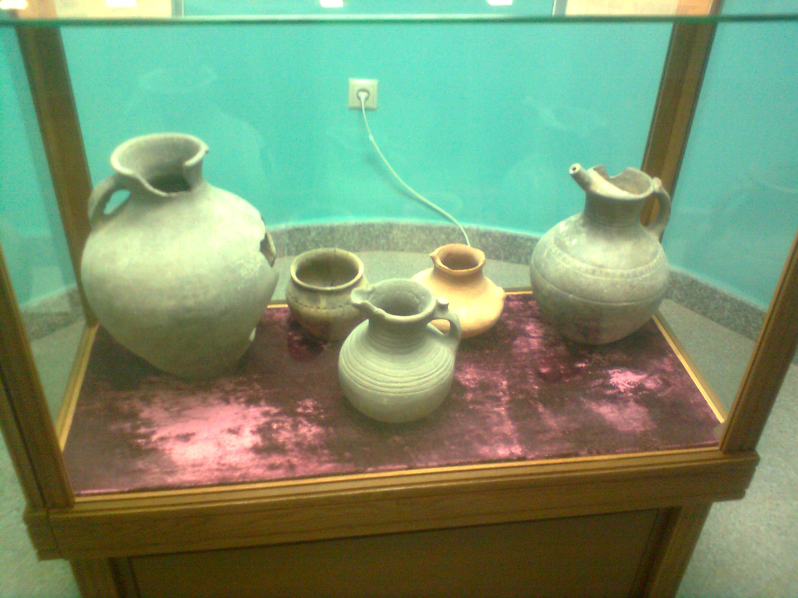 Exhibits from the Chechen National Museum